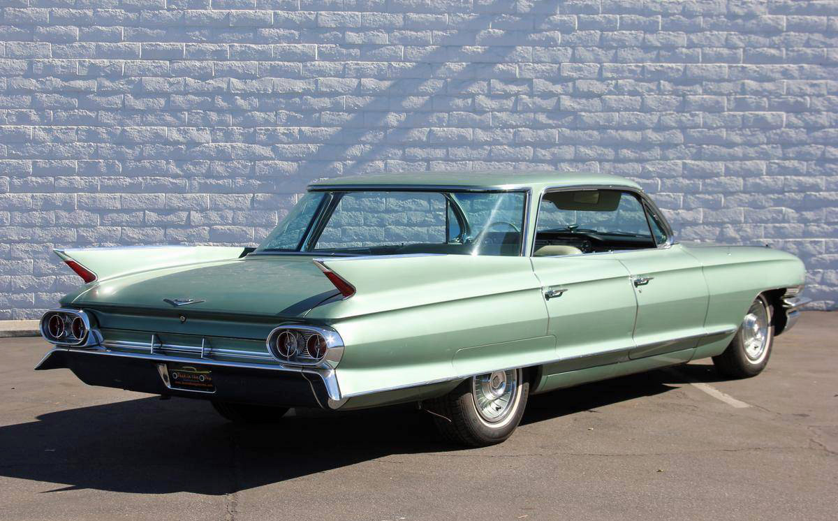 1961 Cadillac four window Sedan Deville